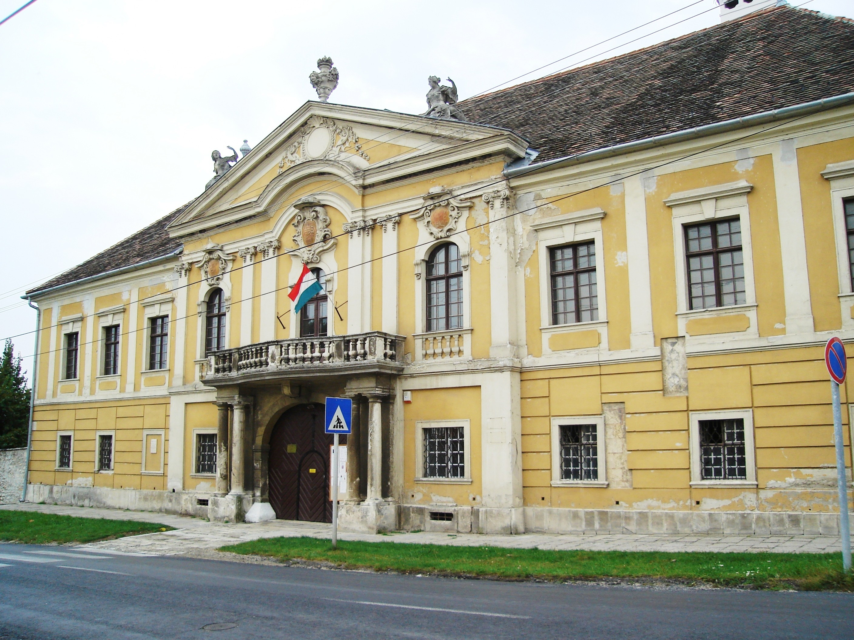 The street front of the episcopal palace in Fertőrákos